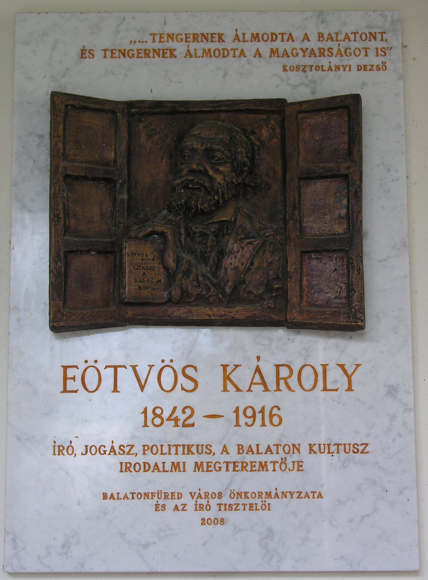 Commemorative plaque of Károly Eötvös in Balatonfüred, Gyógy Square No 1